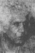 Mansour Bagherian